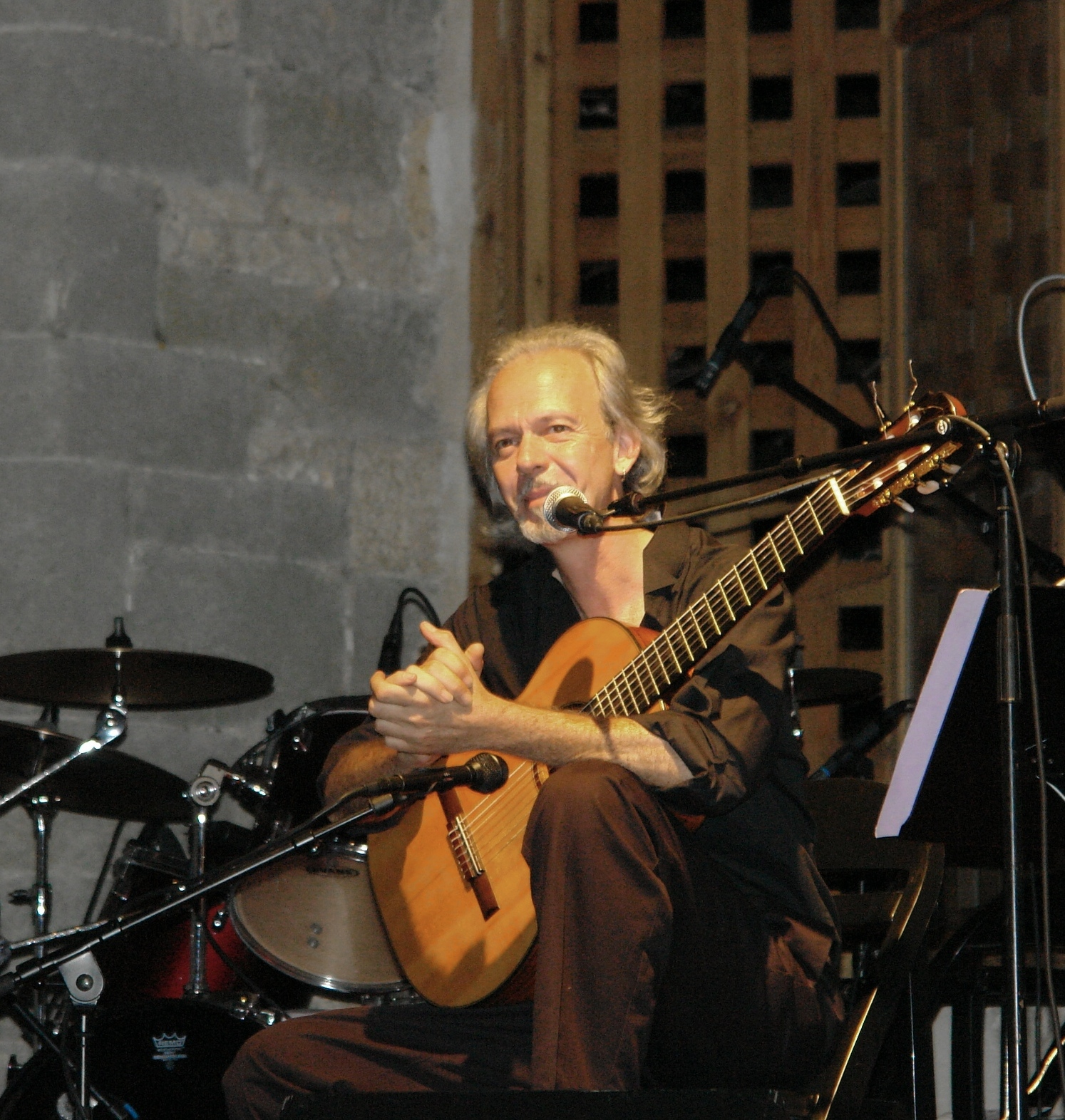 Anthony Glise, Nuits de Hautecombe 2008. Nuits de Hautecombe is a music festival held in Hautecombe abbey in Savoie département (France).